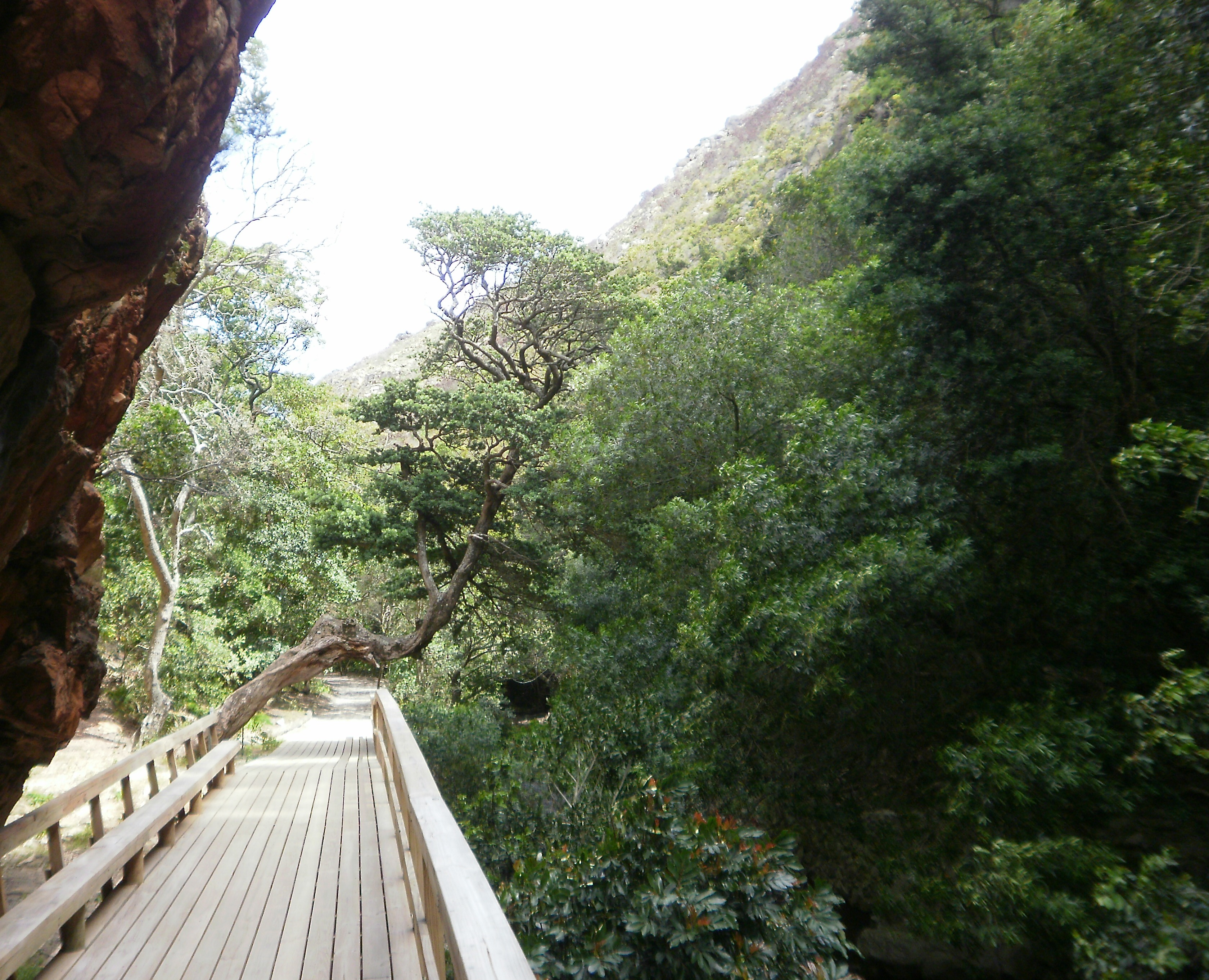 Indigenous forest section of Harold Porter National Botanical Garden. Bettys Bay. South Africa.